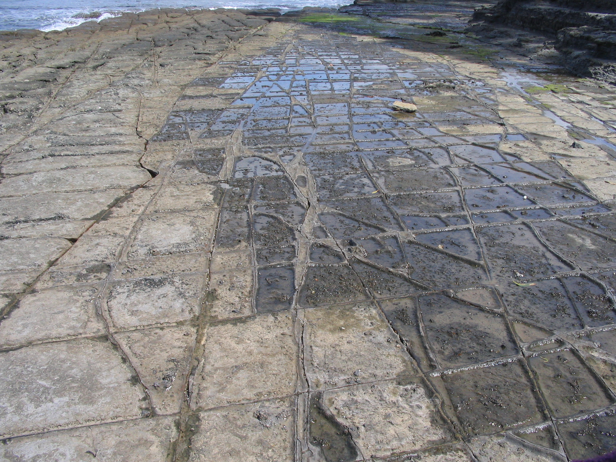 "Tessellated Pavement", a natural rock formation on the Tasman Peninsula, Tasmania, Australia.